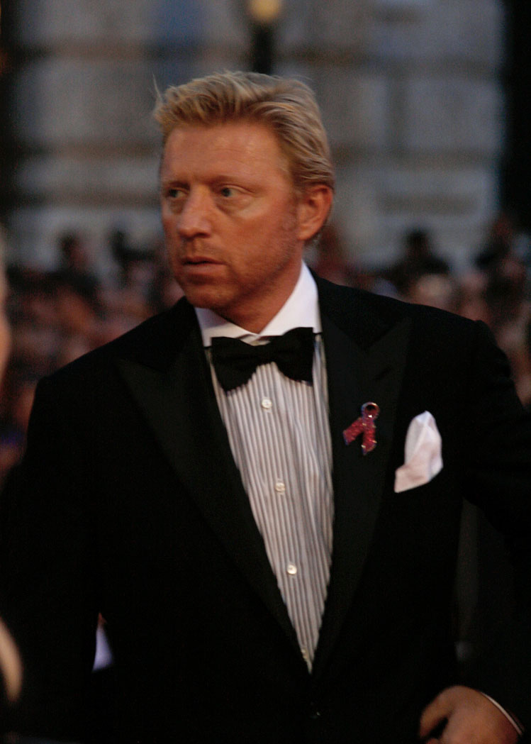 Boris Becker on the red carpet of the Life Ball 2010.